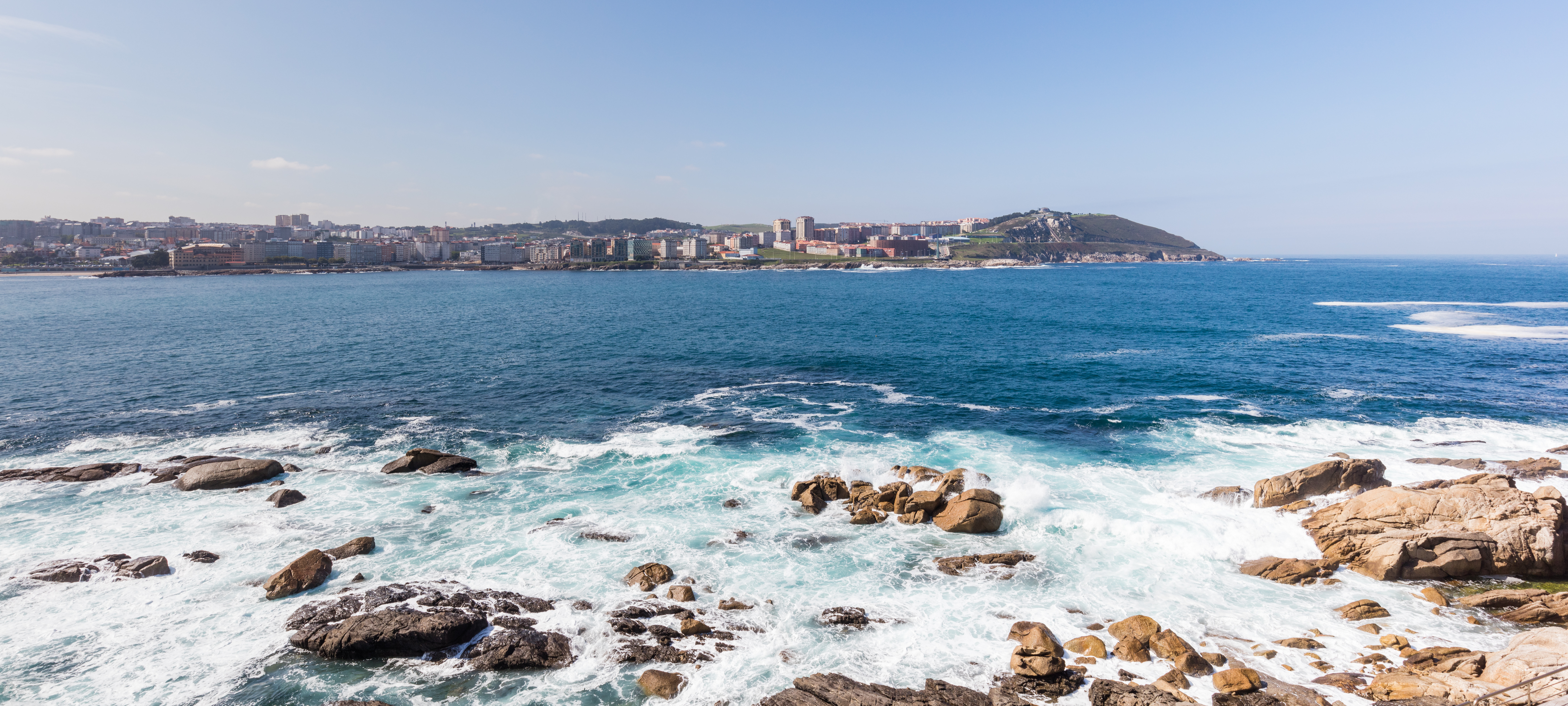 View of La Coruña, Spain